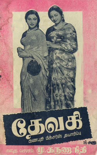 Poster for the 1951 Tamil film Devaki